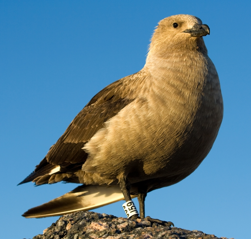 South Polar Skua